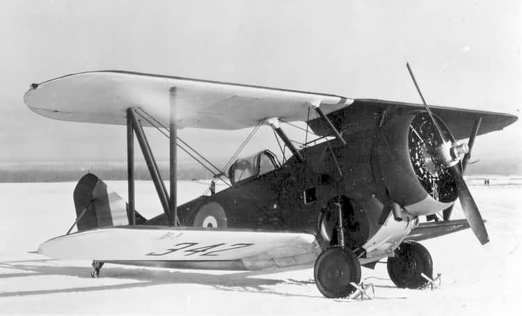 Image originally found on: accessible through